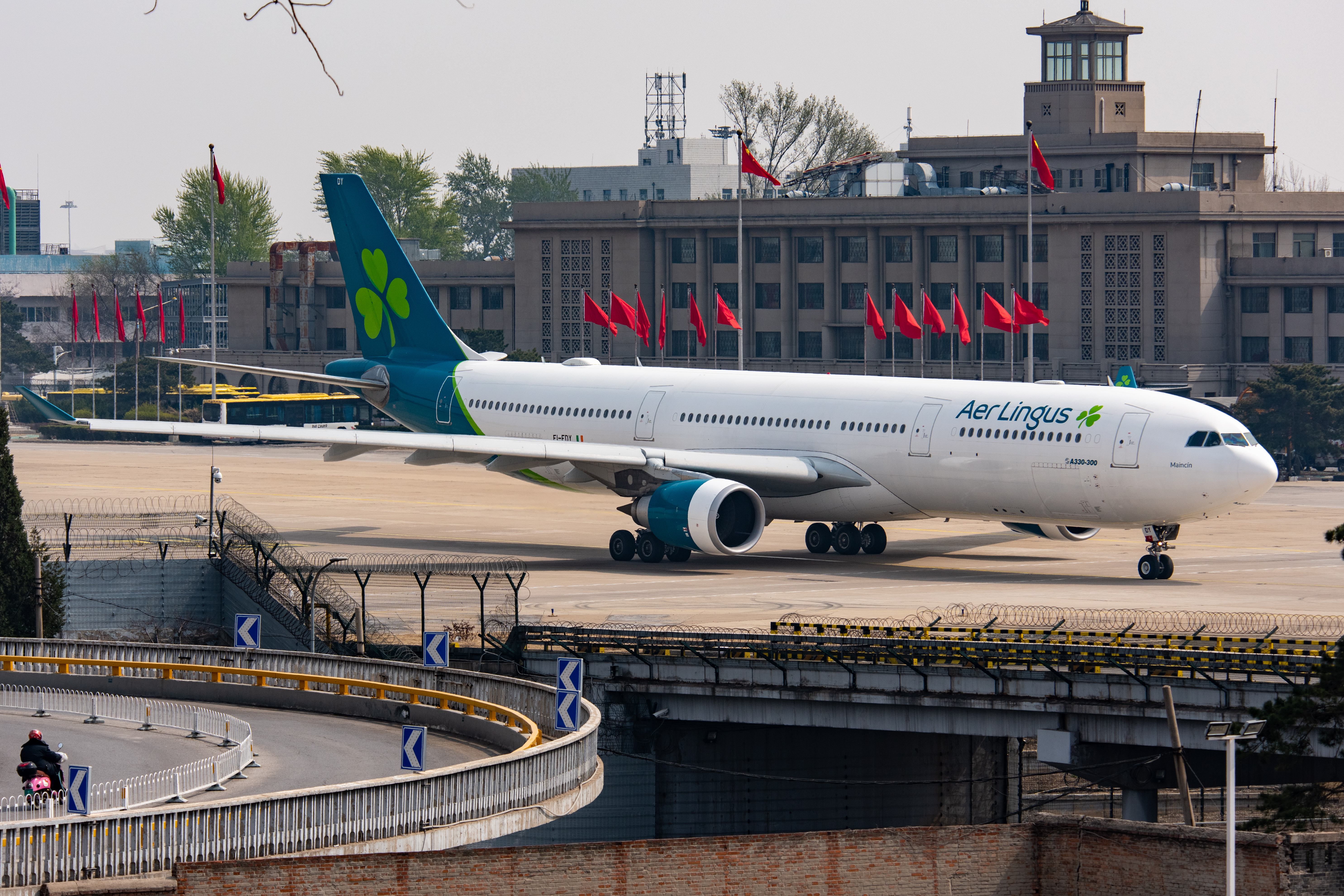 EIN9021 to Dublin. The captain must have been shocked when he saw 3 pairs of tenders which would later make water cannon salutes for CA042.